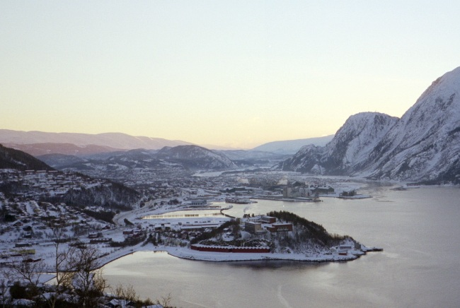 Mosjøen, wintertime